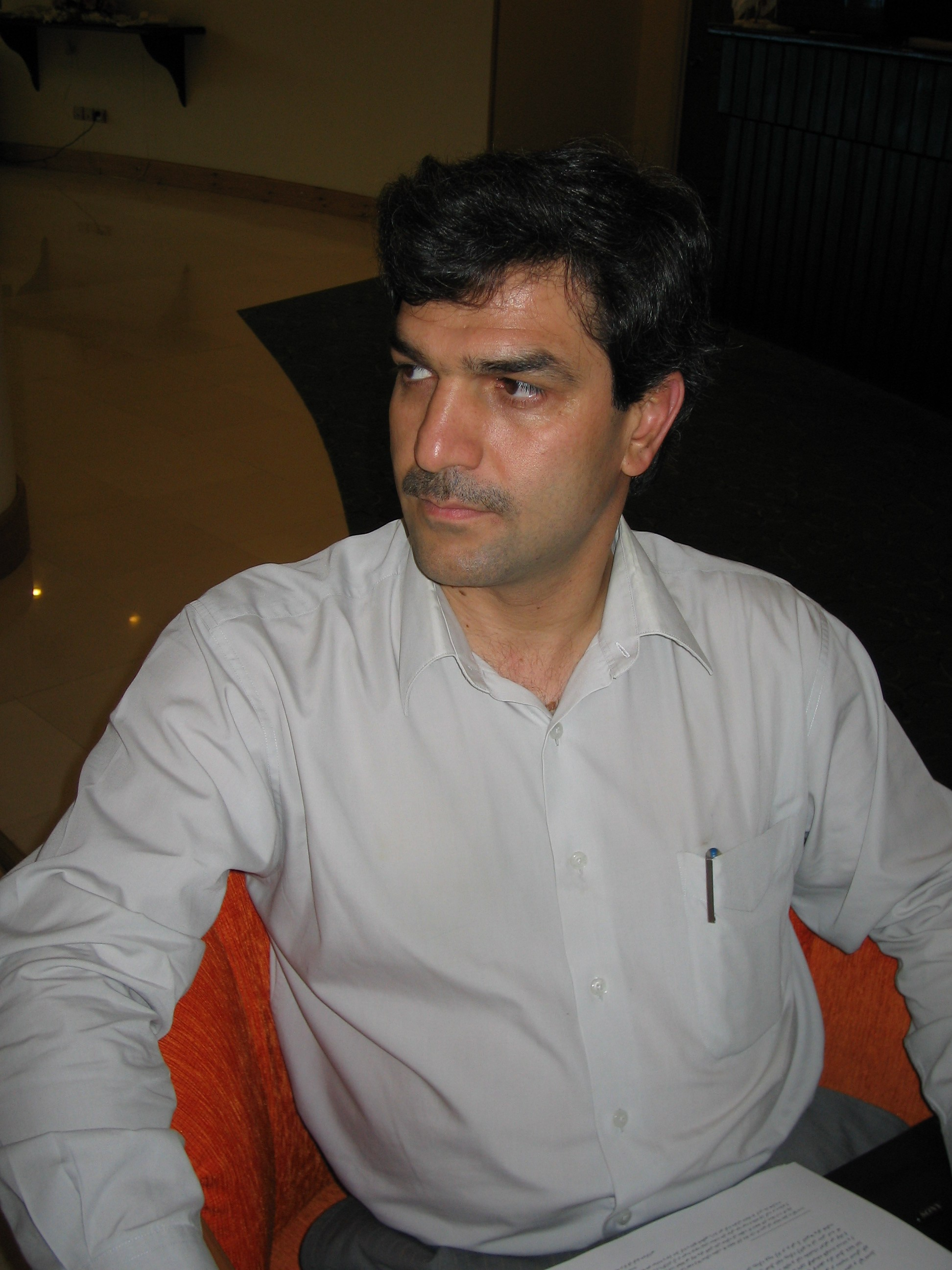 Ali Akbar Mousavi Khoini (علی‌اکبر موسوی خوئینی), Iranian reformist parliament representative from 2000 to 2004.